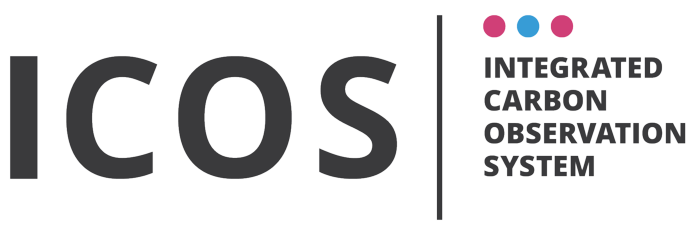 The logo of ICOS RI